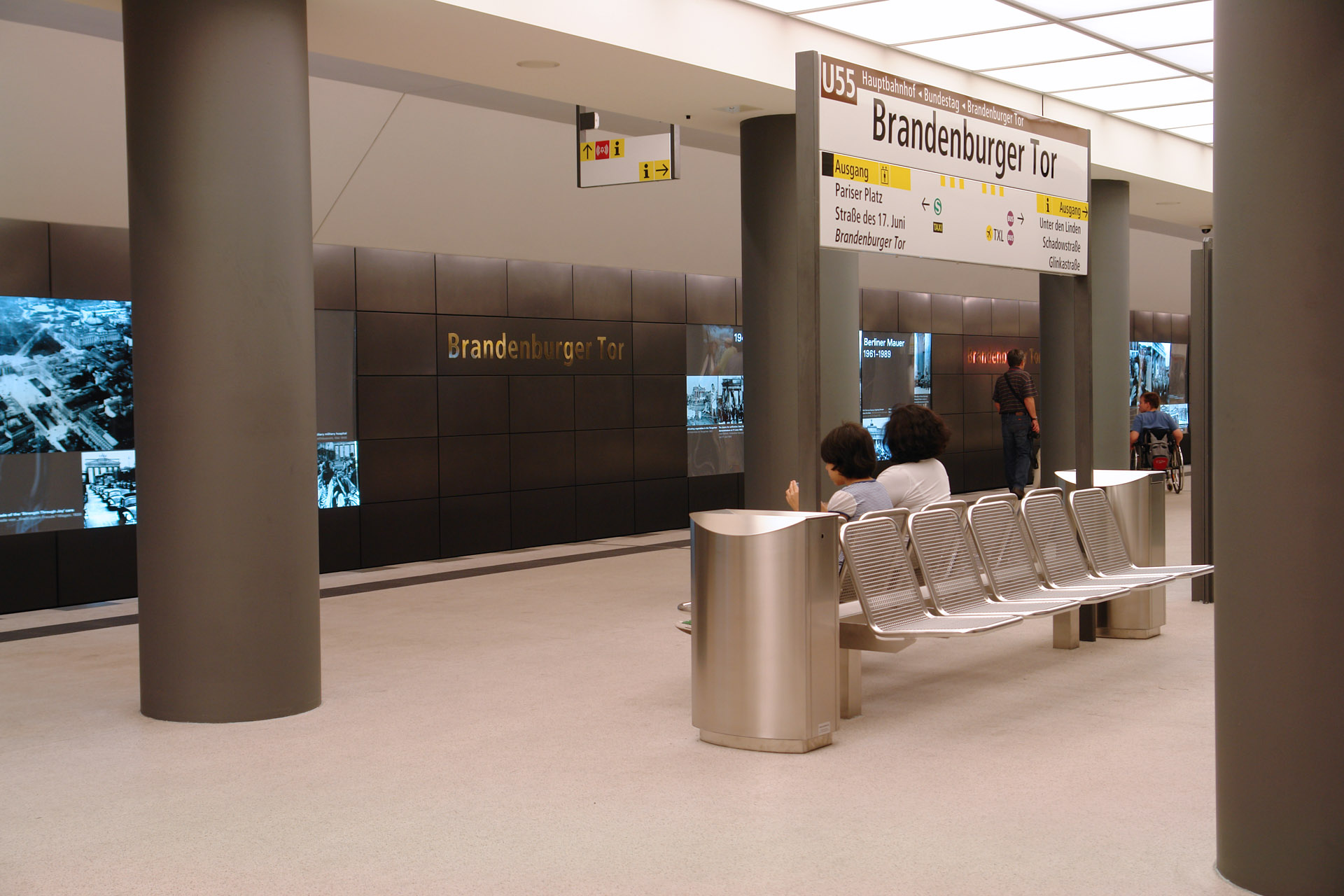 Berlin, Subway stop Brandenburger Tor.